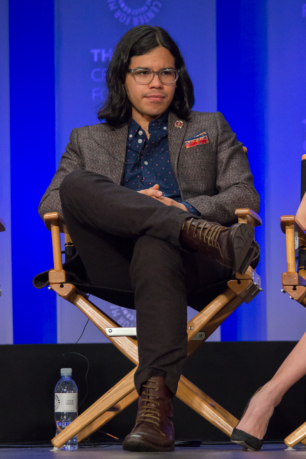 Carlos Valdes at the PaleyFest 2015 presentation for "The Flash"